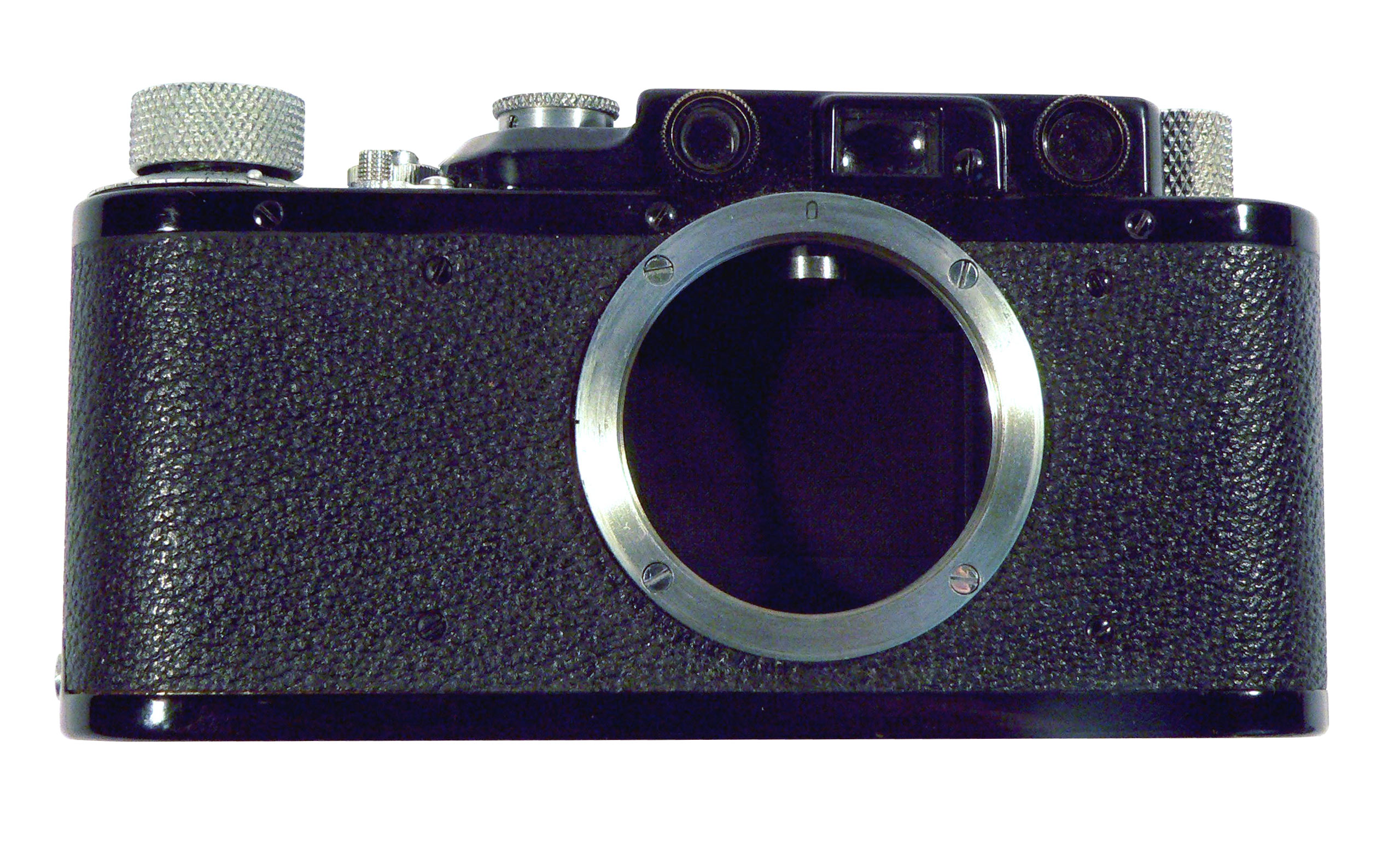 Leica II camera. Serial number 252 180, model from 1937.